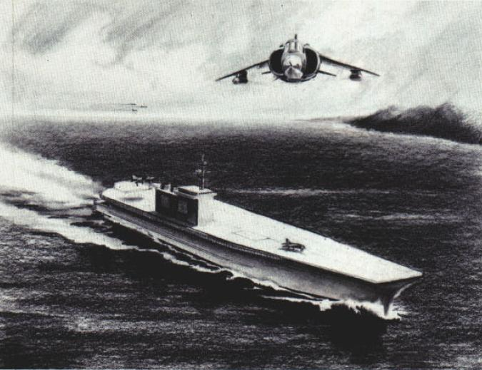 Official U.S. Navy photo of artist conception of its VSTOL Support Ship (VSS) circa 1976.